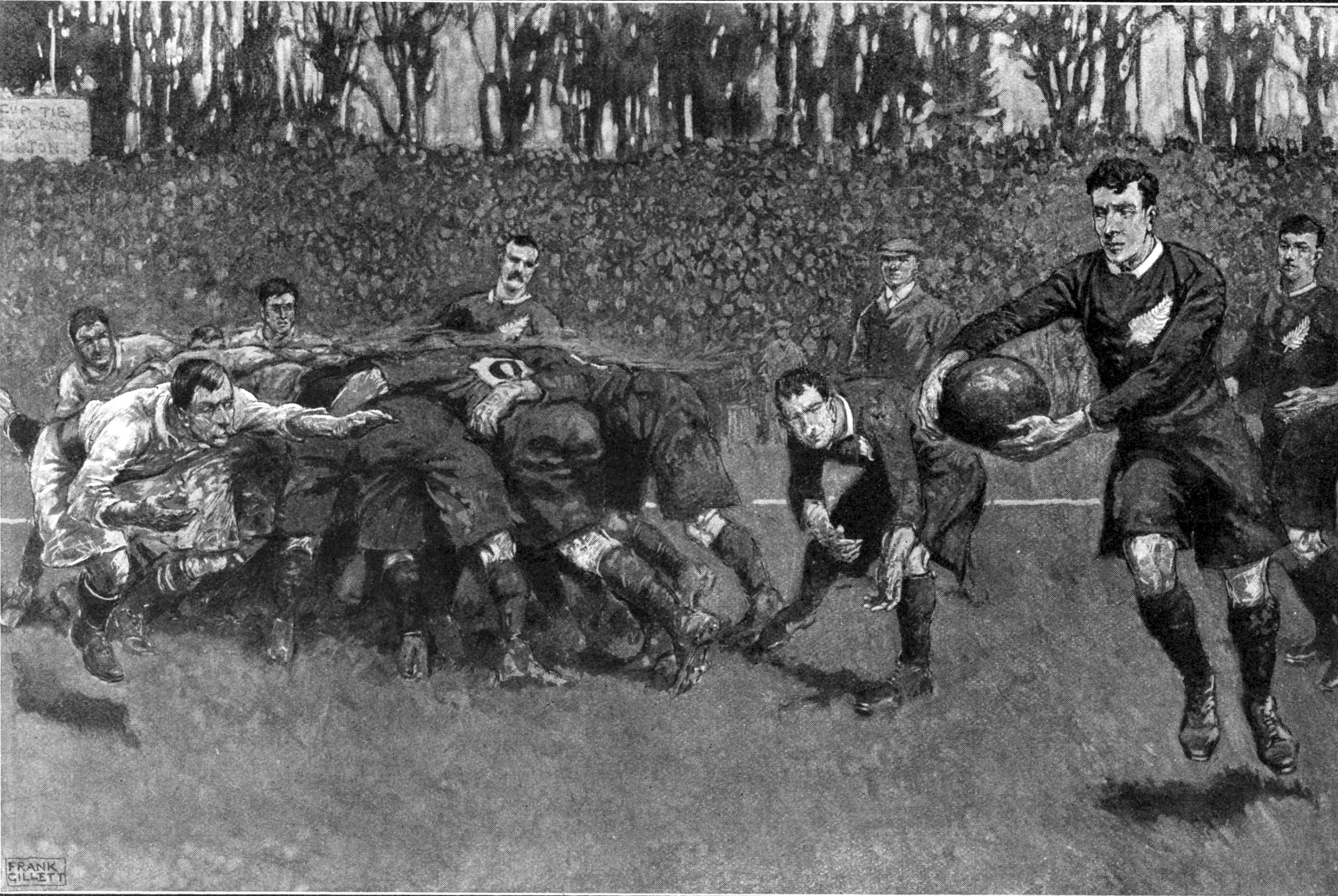 Depiction of a scrum during a match the Original All Blacks and England rugby teams in 1905. All Black captain Dave Gallaher, wearing black at the opposite side of the scrum, can be clearly identified.